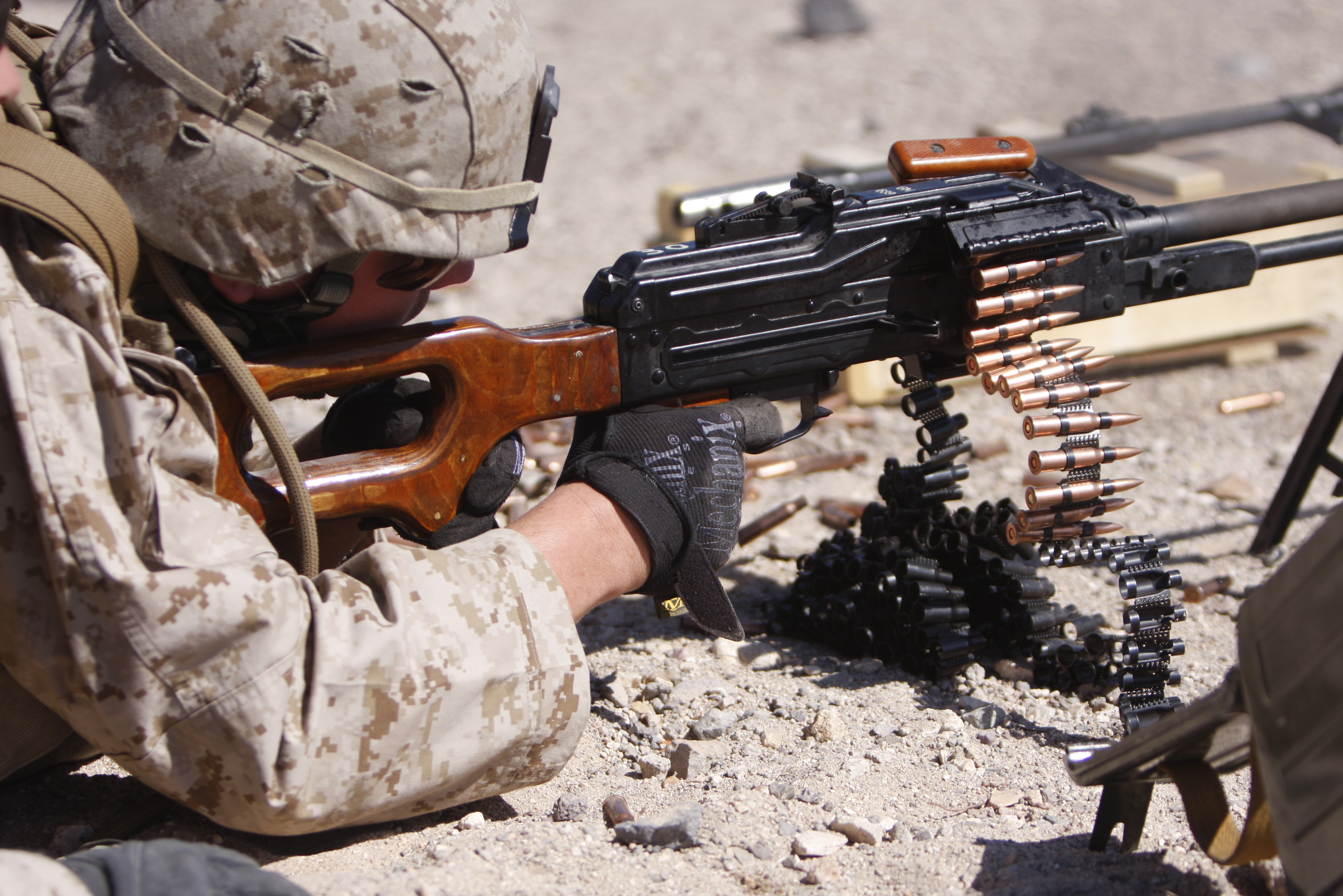 Lance Cpl. Christopher Mooney, a Marine training with Police Mentor Team 1st Battalion, 10th Marine Regiment, fires the PKM machine gun July 14 at Combat Center Range 113A.